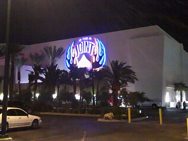 a music and sports venue inside the Hard Rock Hotel and Casino (Las Vegas), The Joint